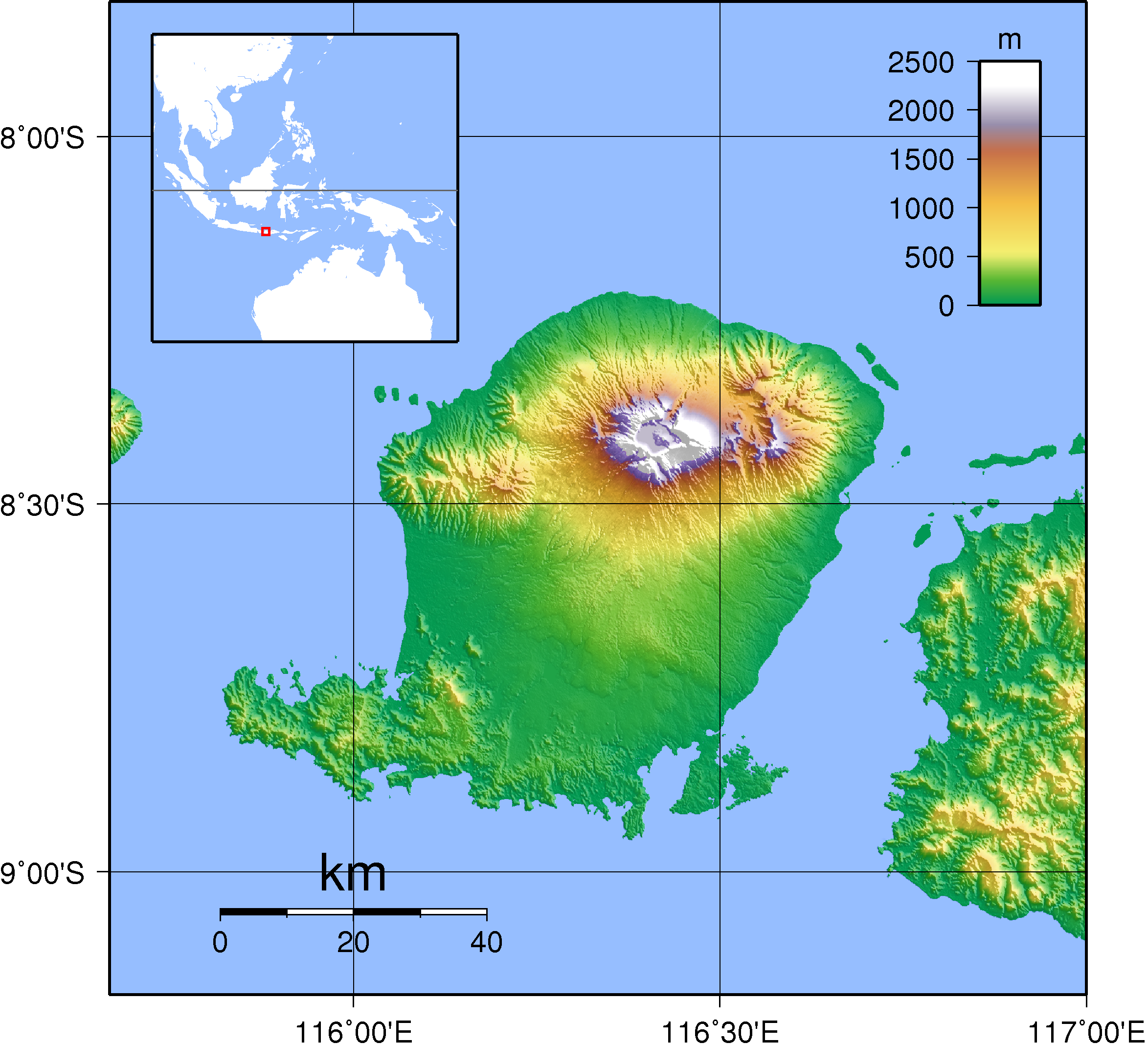 Topographic map of Lombok, Indonesia. Created with GMT from SRTM data